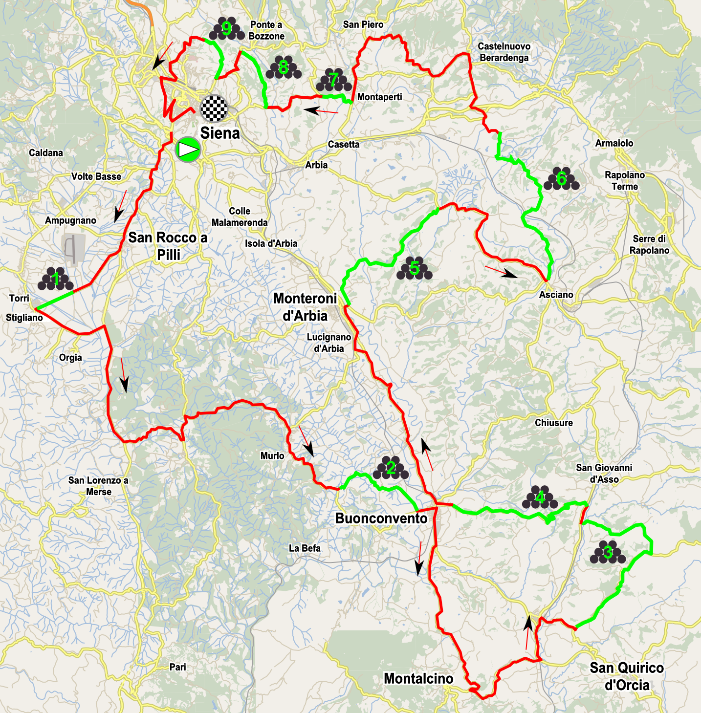 Map of the Strade Bianche 2016 (men). Note that the place of the start is not precise to avoid superposition with the arrival road.